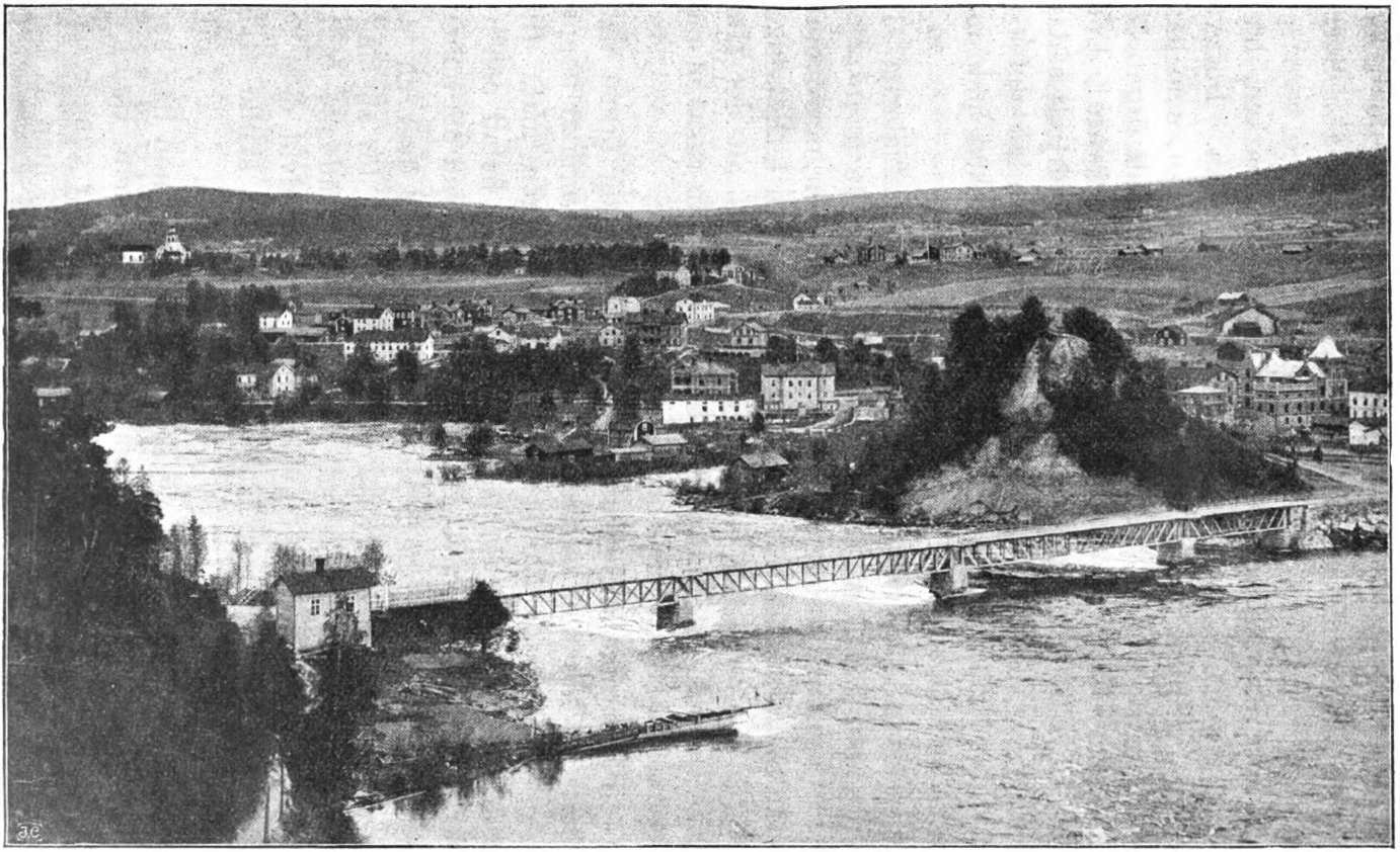 "Ångermanälvens dalgång." (Sollefteå) Photo by K. Stein. Illustration from Nils Holgerssons underbara resa genom Sverige by Selma Lagerlöf.